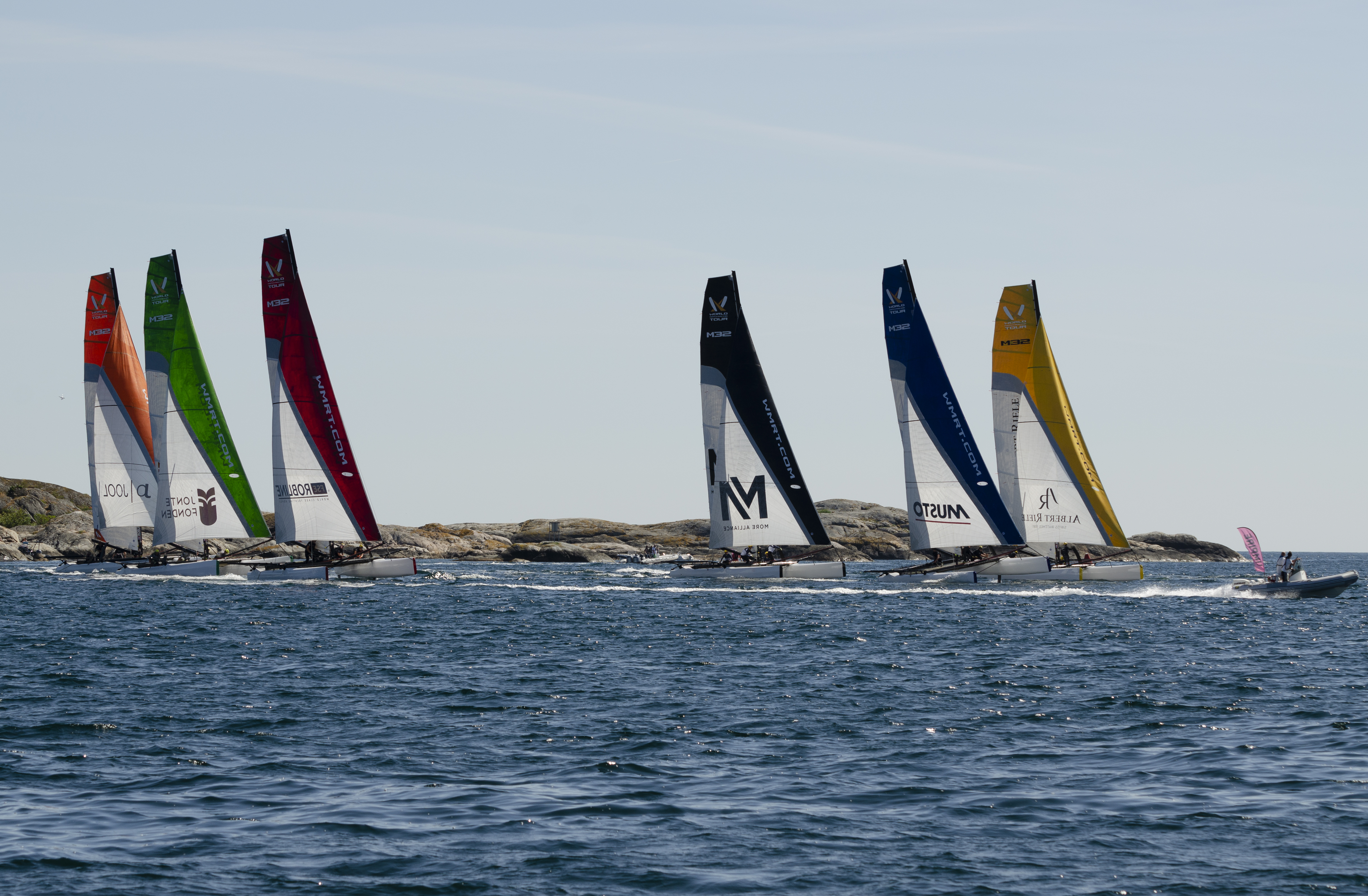 Match Cup Norway 2018 in Risør, part of the World Match Racing Tour.